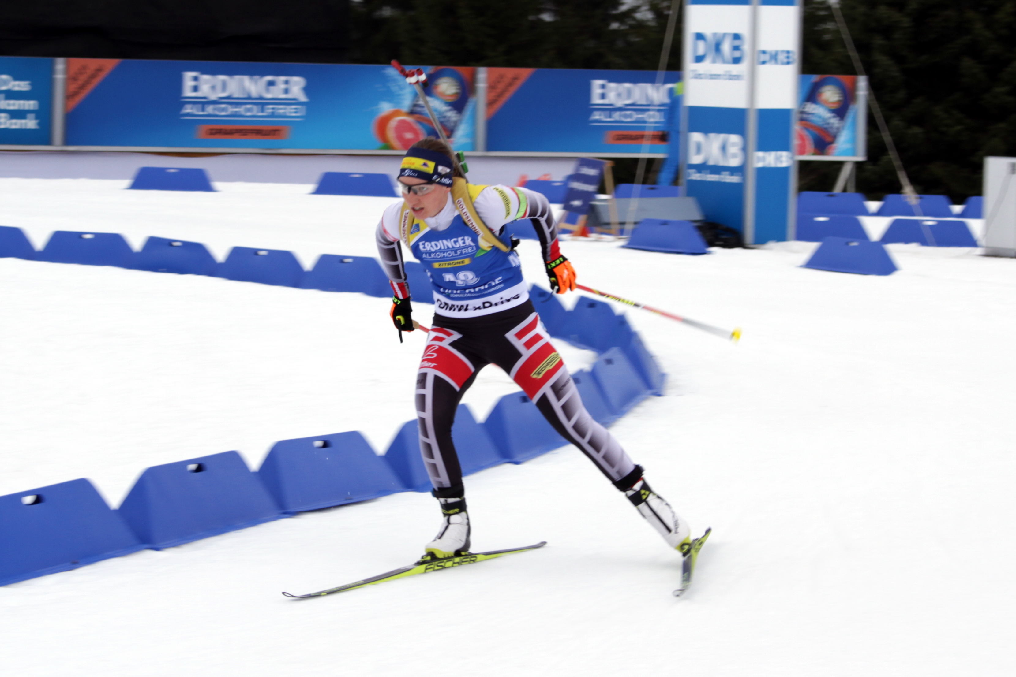 2018 Oberhof Biathlon World Cup - Pursuit Women